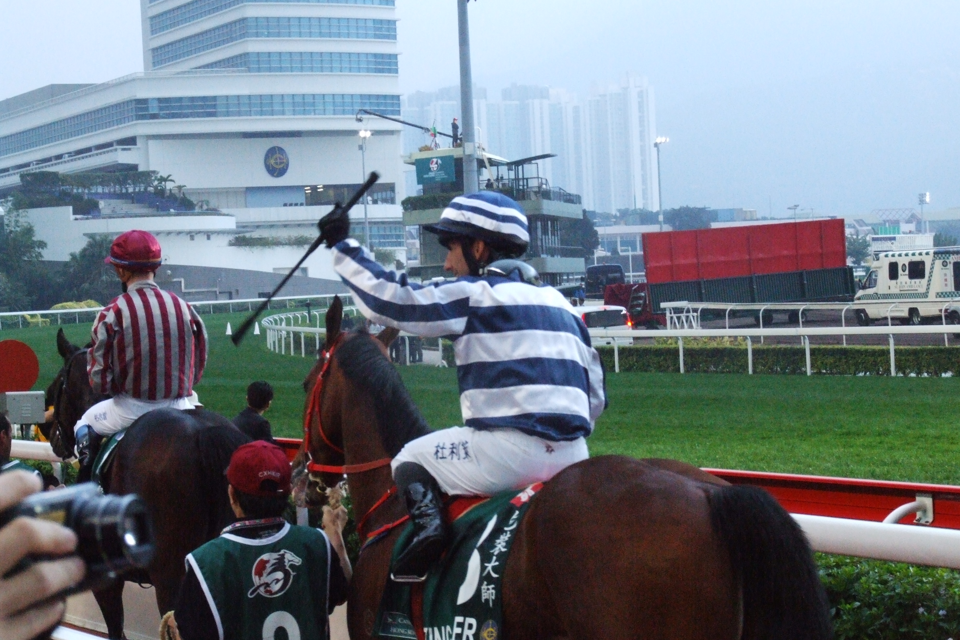 Packing Winner 中文（香港）: 包裝大師